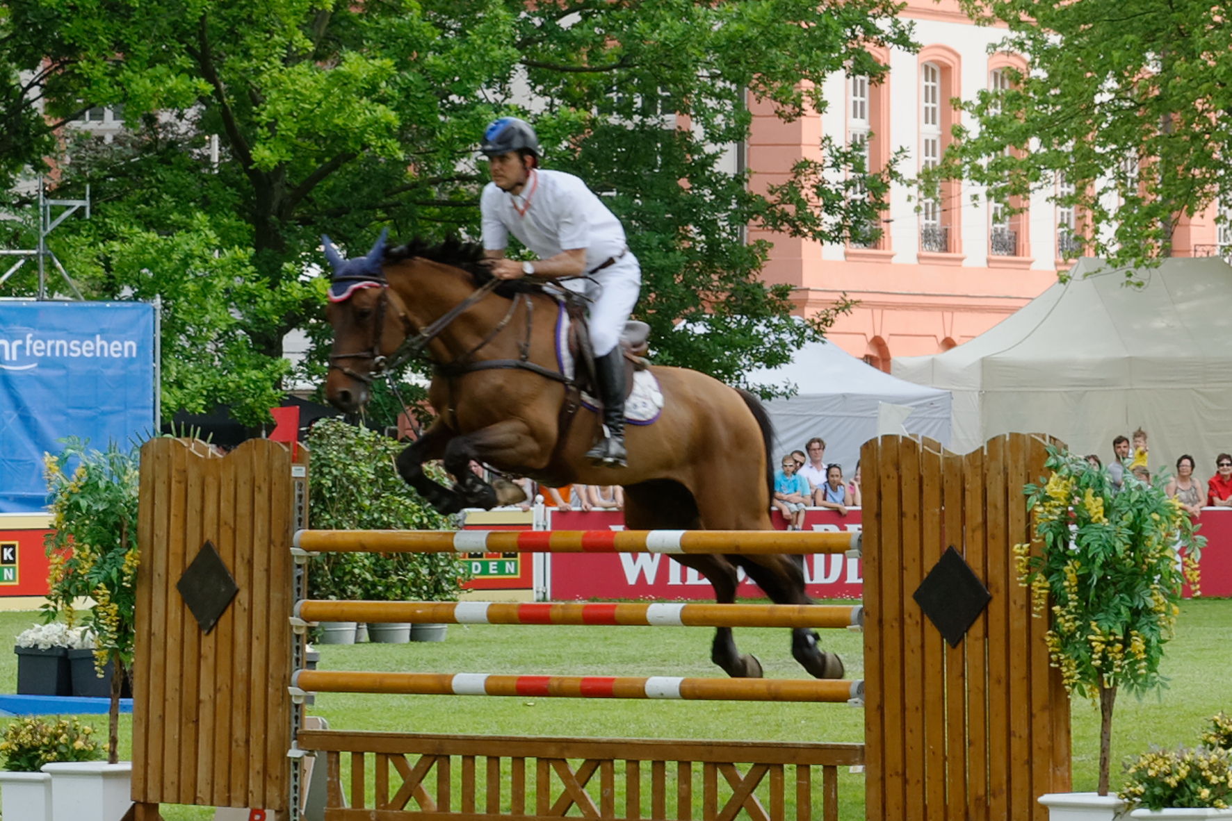 Internationales Pfingstturnier Wiesbaden 2014 The making of this document was supported by the Community-Budget of Wikimedia Germany.